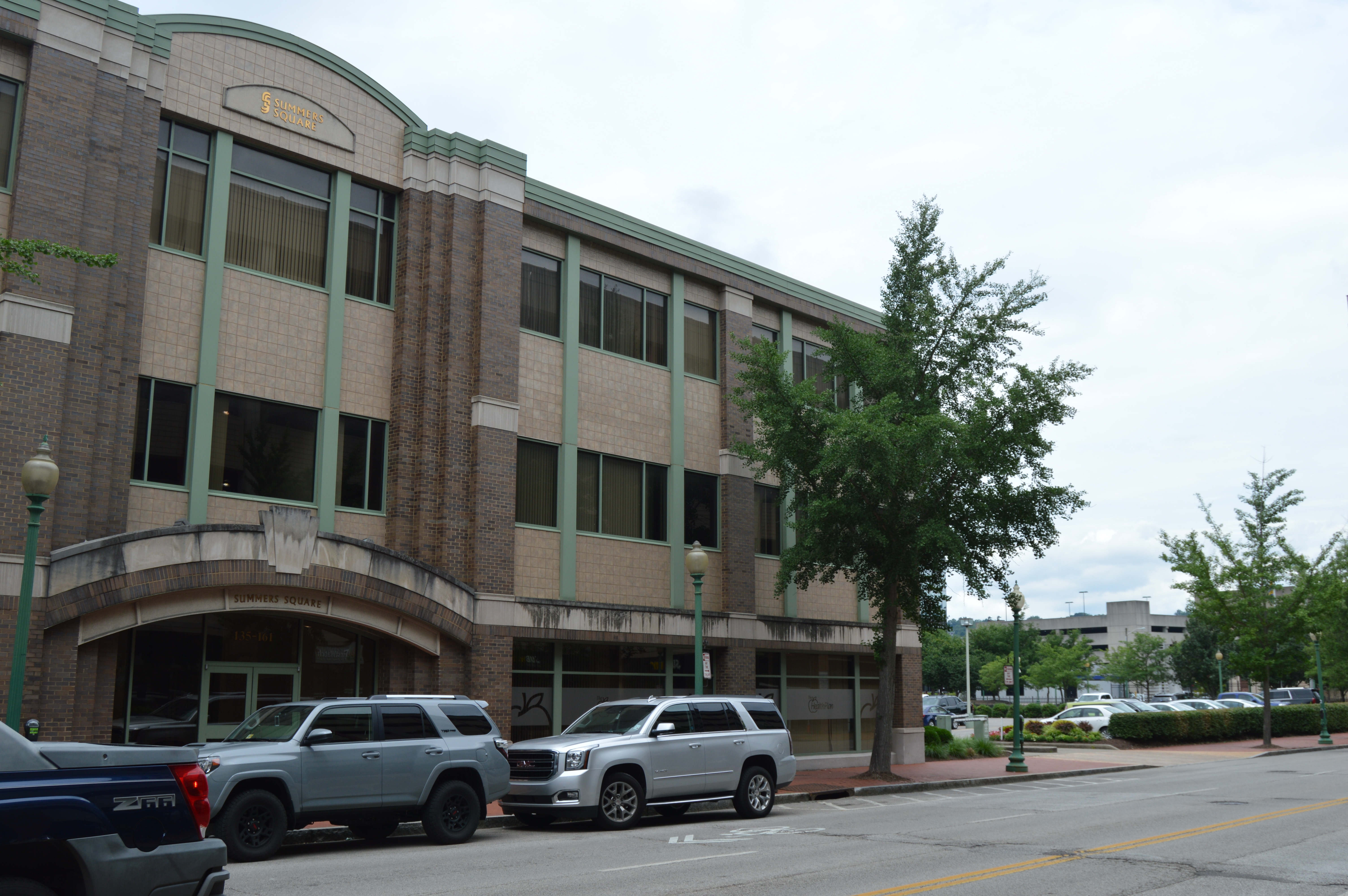 Part of the Summers Square building and an adjacent parking lot, located on the northwestern side of Summers Street northeast of Quarrier Street in downtown Charleston, West Virginia, United States. This is the site of the Kearse Theater, which was built in 1921 and listed on the National Register of Historic Places in 1981; although demolished in 1982, it has not yet been removed from the Register.